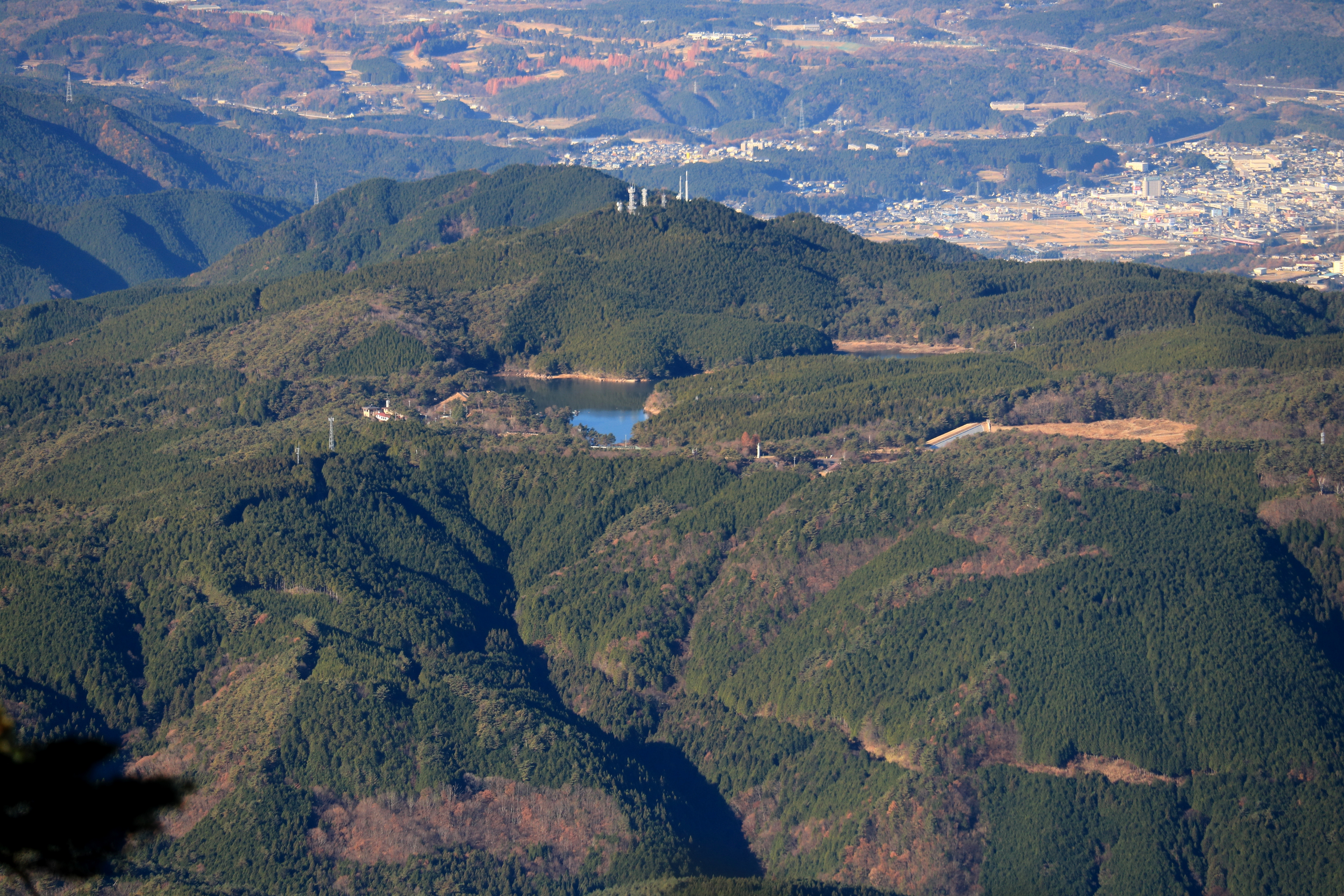 Lake Hoko seen from Mount Ena in Ena and Nakatsugawa, Gifu prefecture, Japan.